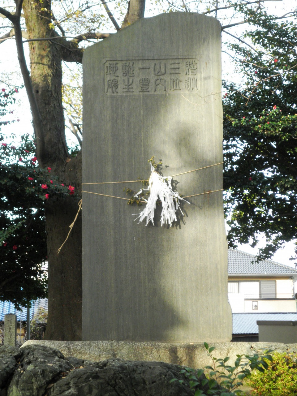 The Monument of Yamauchi Katsutoyo's birthplace at Shimmei-Ikuta Shrine in Iwakura, Aichi.